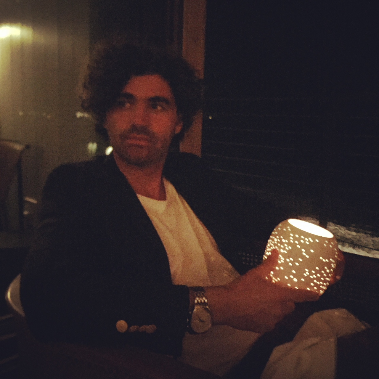 Film Director and Screenwriter ARMANDO BO in SOHO HOUSE, MALIBU.